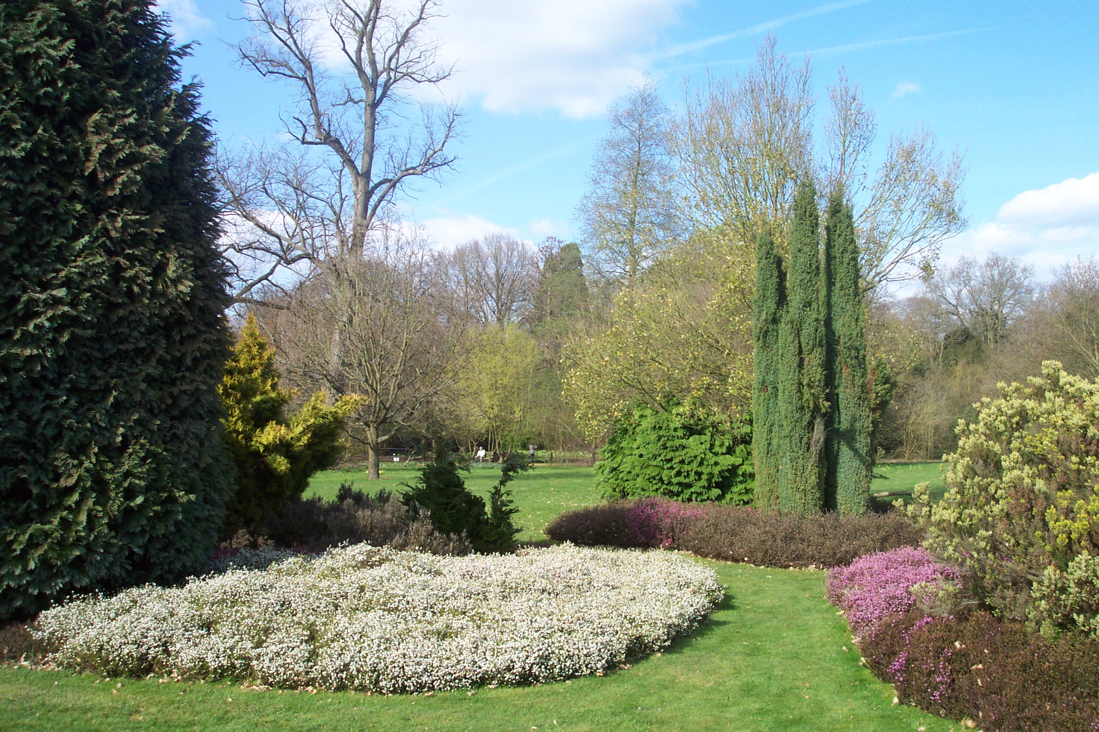 The heather garden in the Harris Garden on the University of Reading's Whikeknights Campus. Seen in early April. For more information see the Wikipedia article Harris Garden.